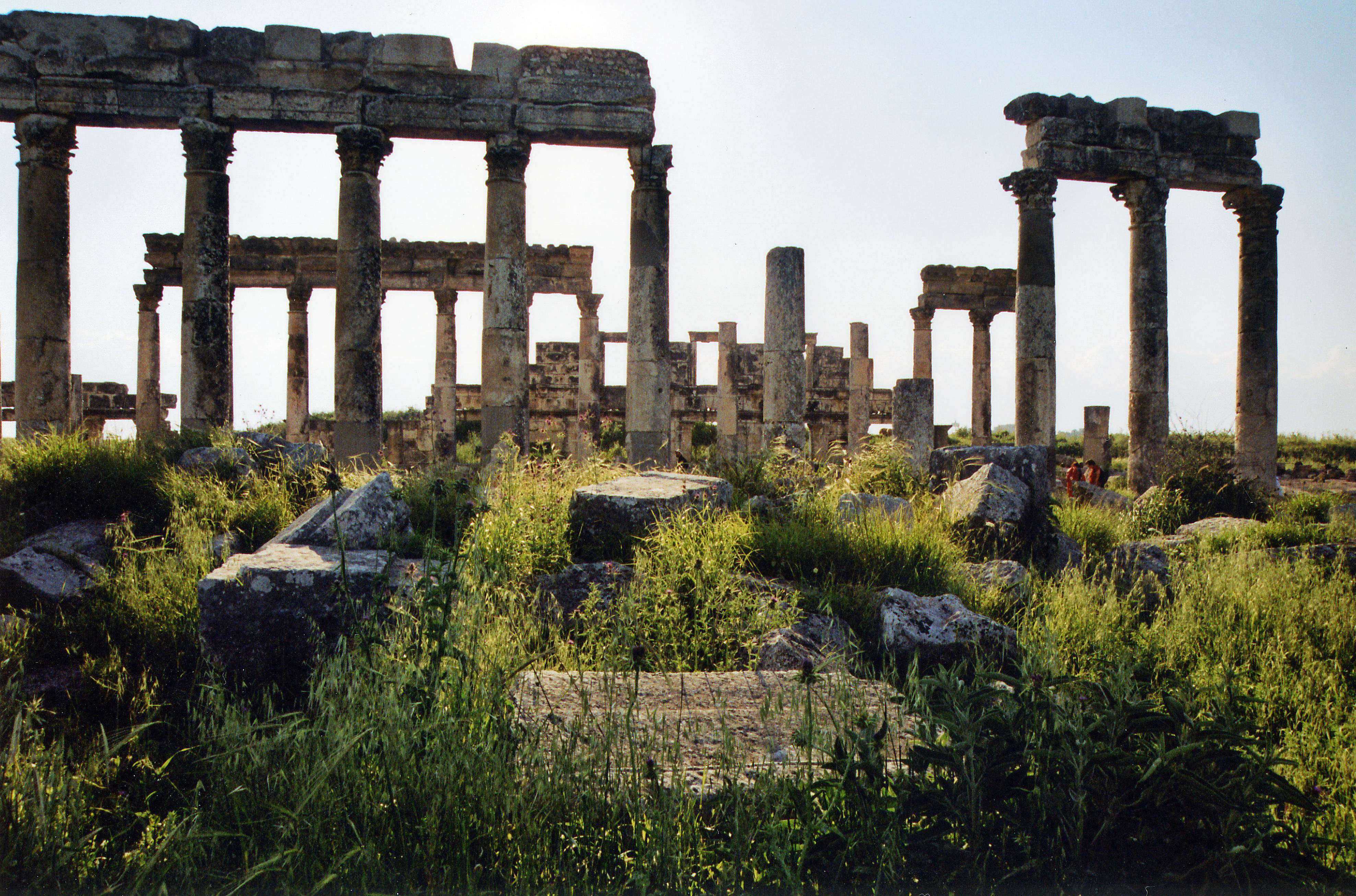 Colonnade street, detail, Apamea in 2002